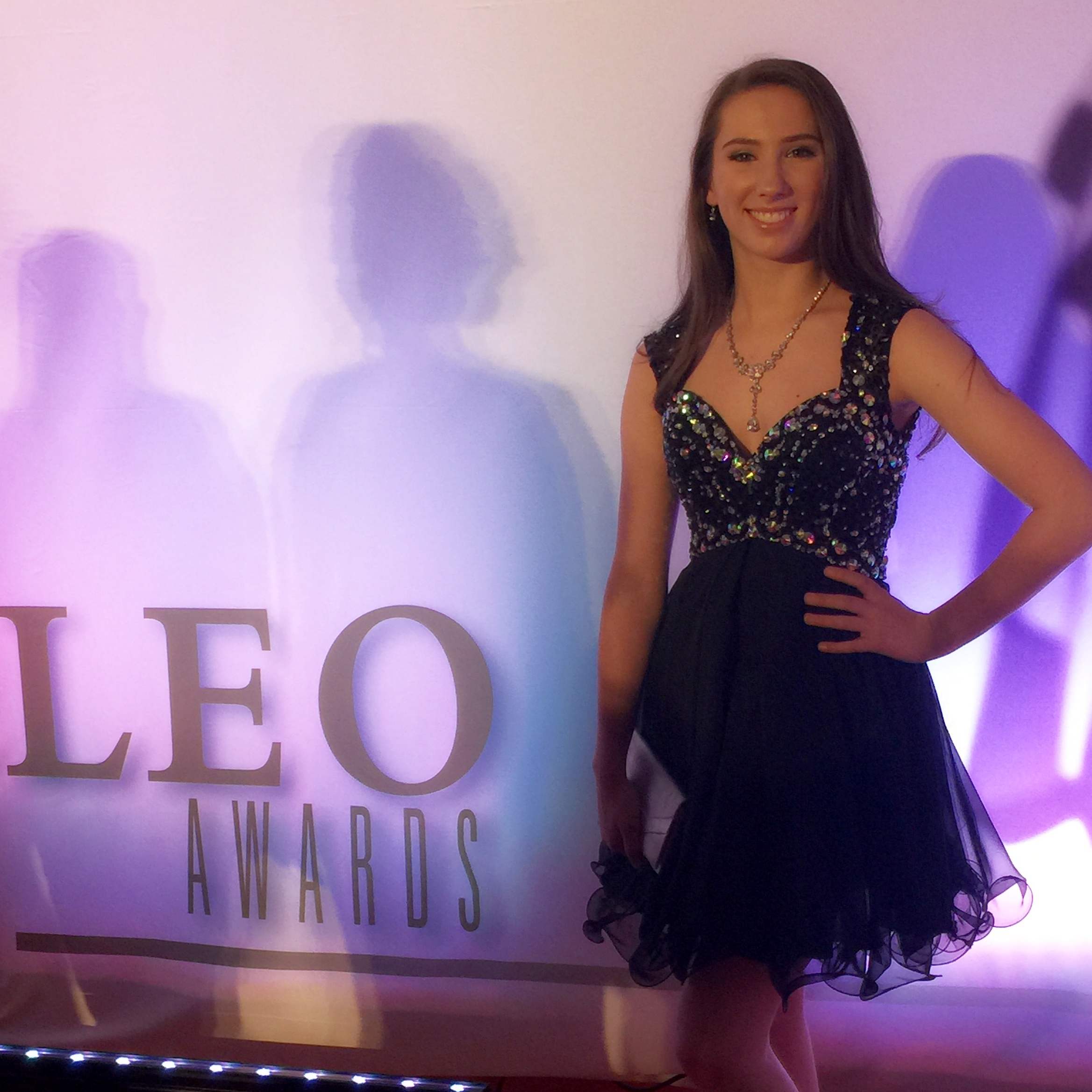 Michelle Creber at the 2015 Leo Awards, Vancouver